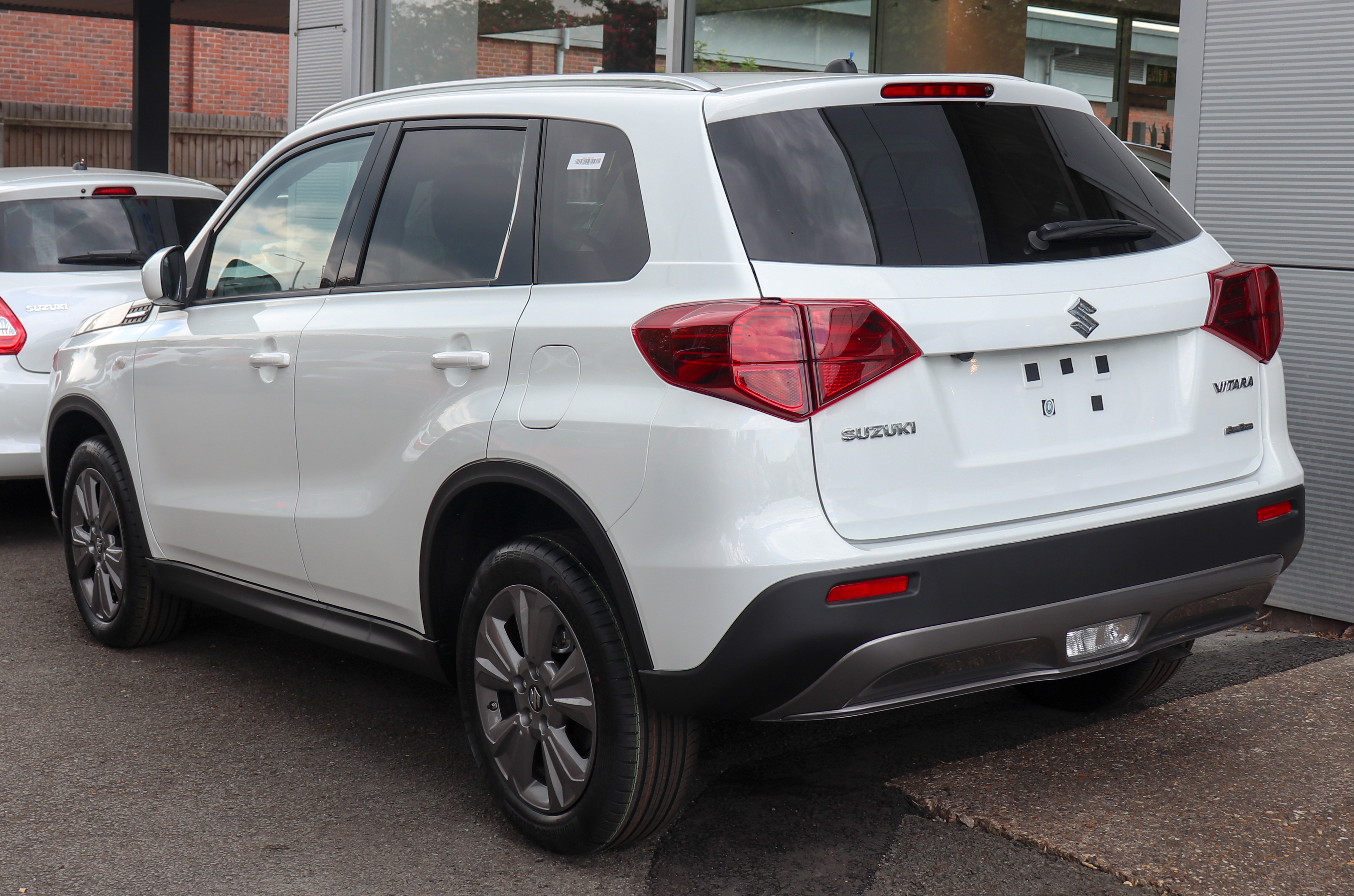 2019 Suzuki Vitara facelift Rear Taken in Stratford-upon-Avon